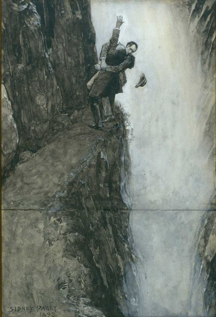 Sherlock Holmes and Moriarty at the Reichenbach Falls. From Arthur Conan Doyle's The Final Problem. Original caption in Strand Magazine was THE DEATH OF SHERLOCK HOLMES.